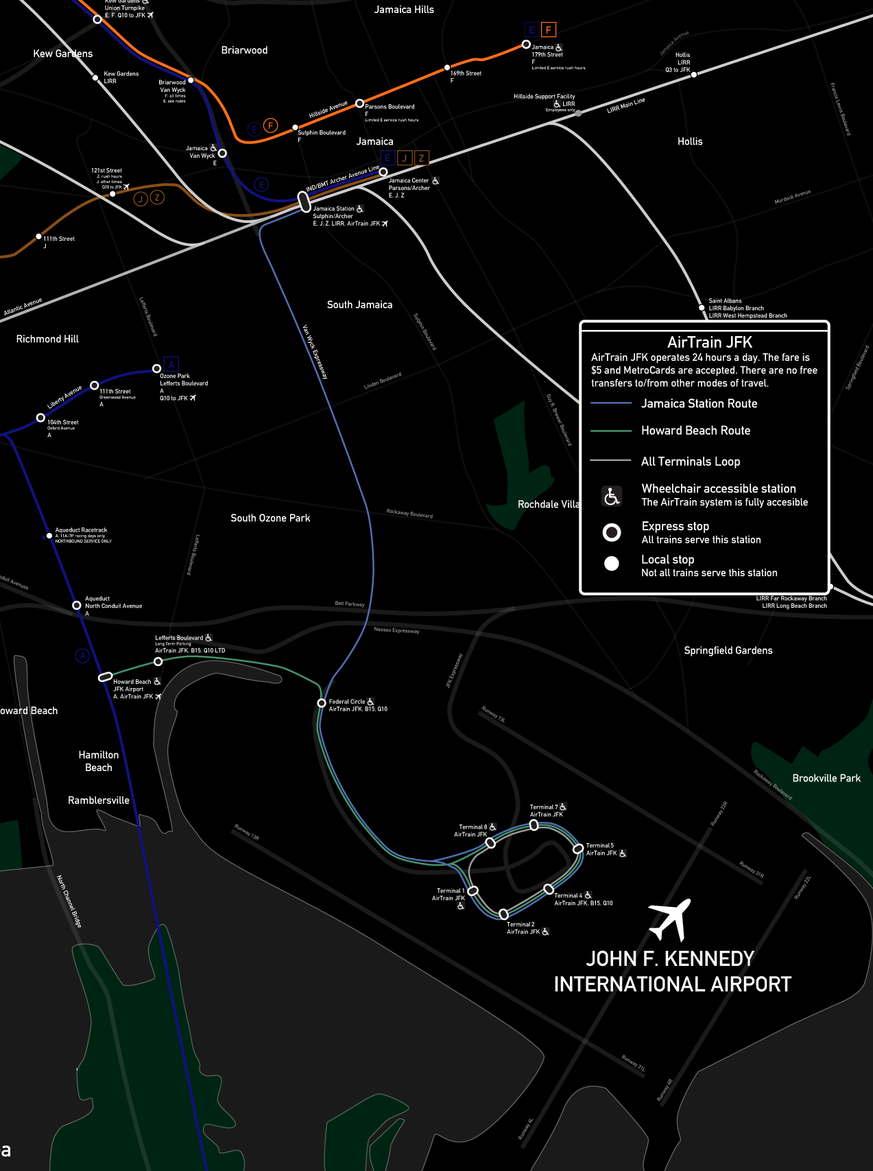 A map of the AirTrain JFK people mover system in the New York City borough of Queens